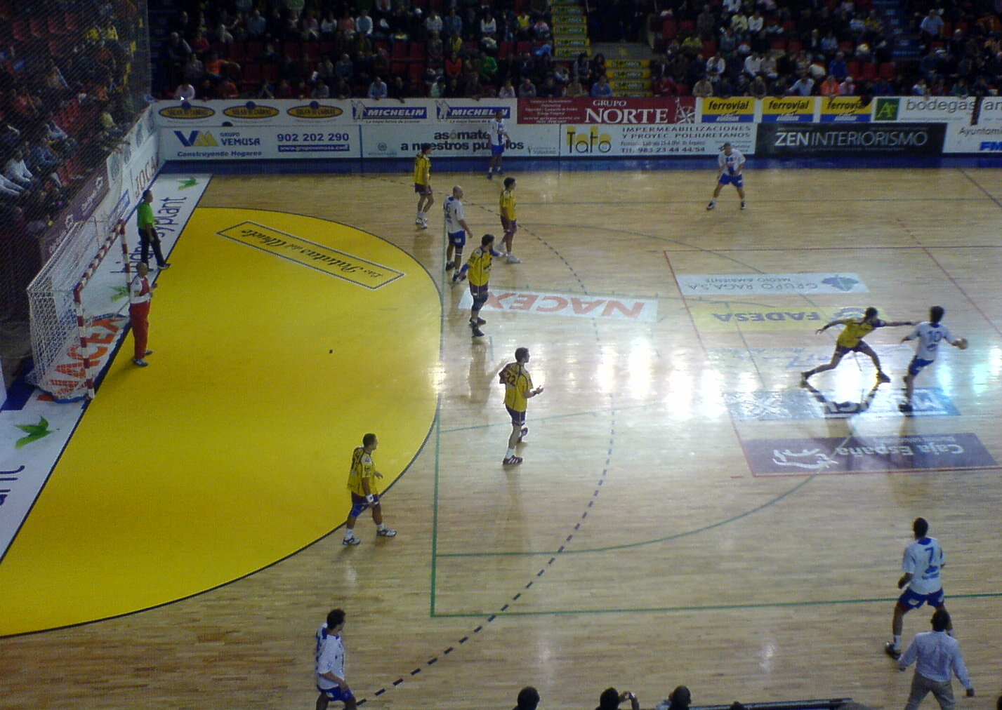 BM Valladolid vs Teka Cantabria, in a 2007-08 Liga Asobal match in Polideportivo Huerta del Rey, Valladolid, Spain.